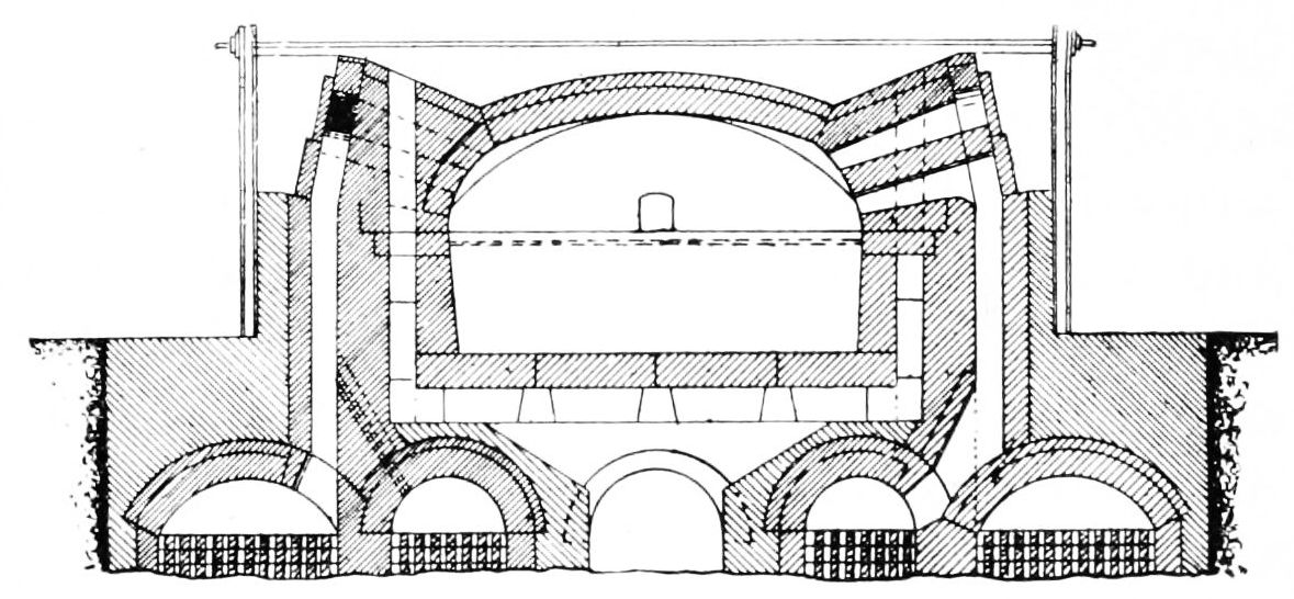 Siemens tank furnace transverse section